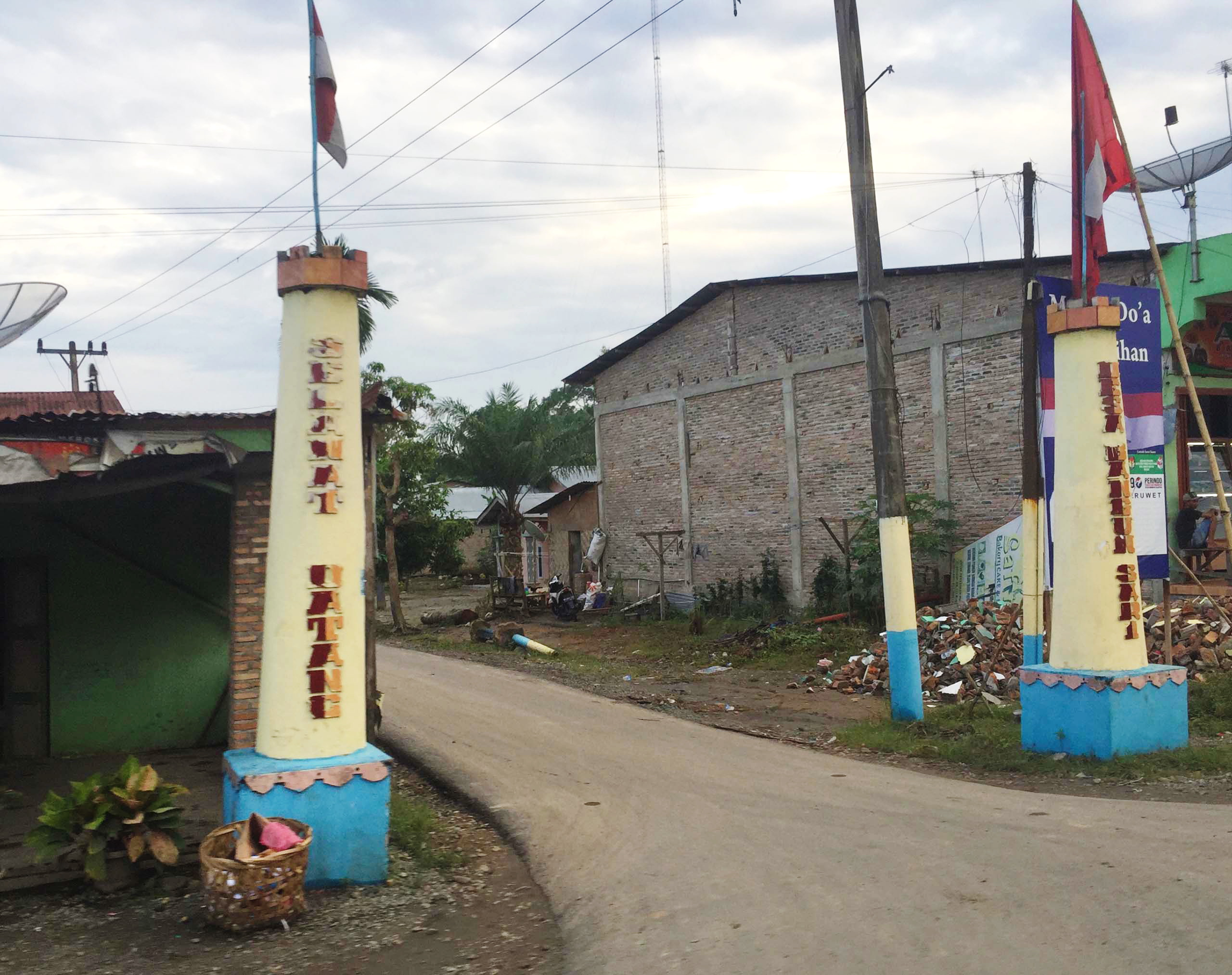 welcome gate to Bangun Sari, Talawi, Batu Bara